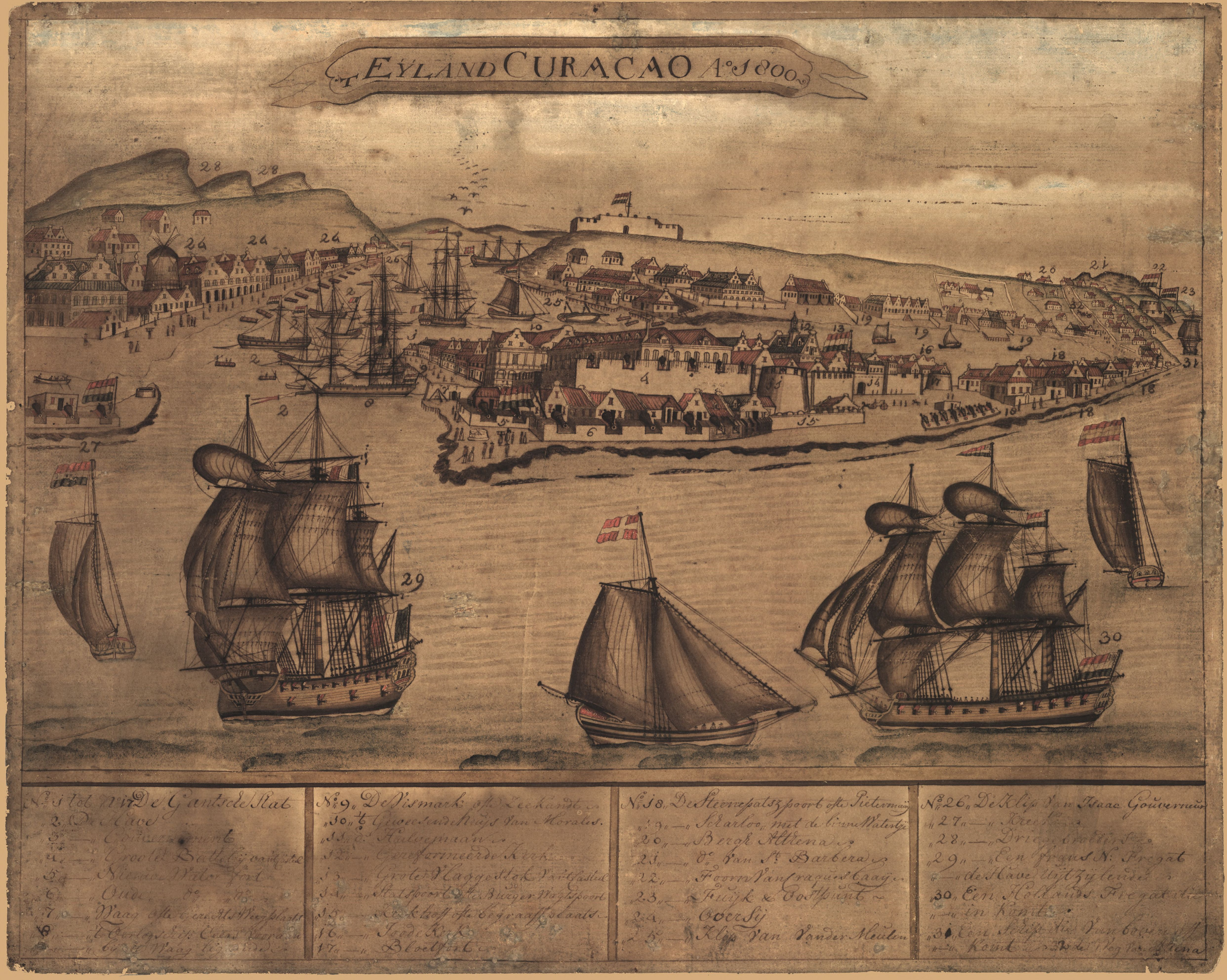 Panorama. Relief shown pictorially. Indexed. Available also through the Library of Congress Web site as a raster image. Vault Acquisitions control no. 98-35